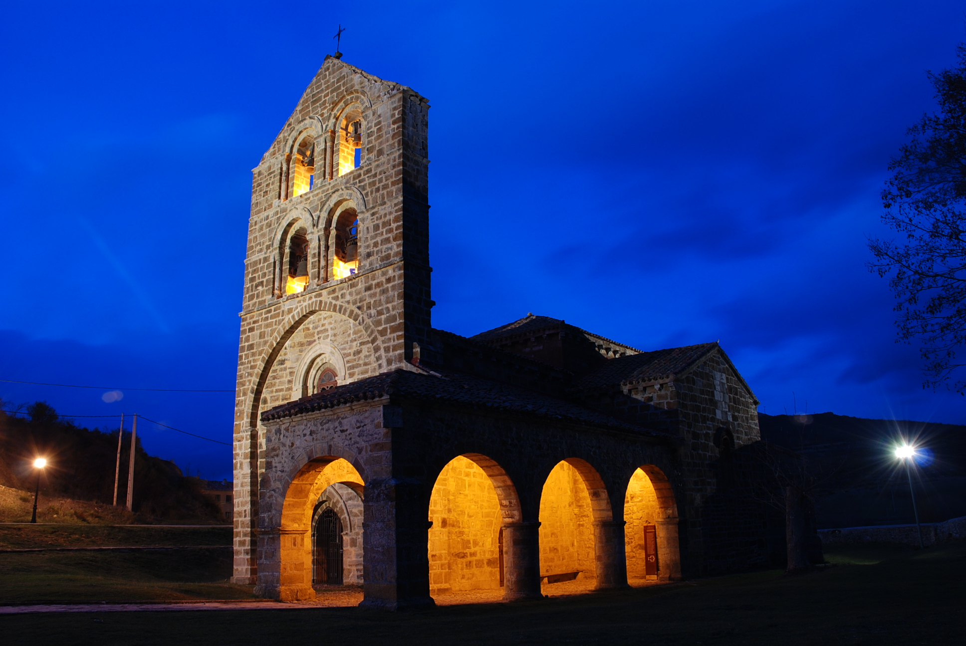 Románic Art at Palencia (Spain) - San Salvador de Cantamuda